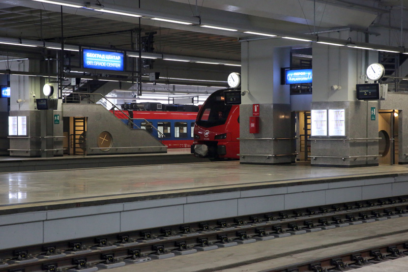 Prokop railway station 2016 inside